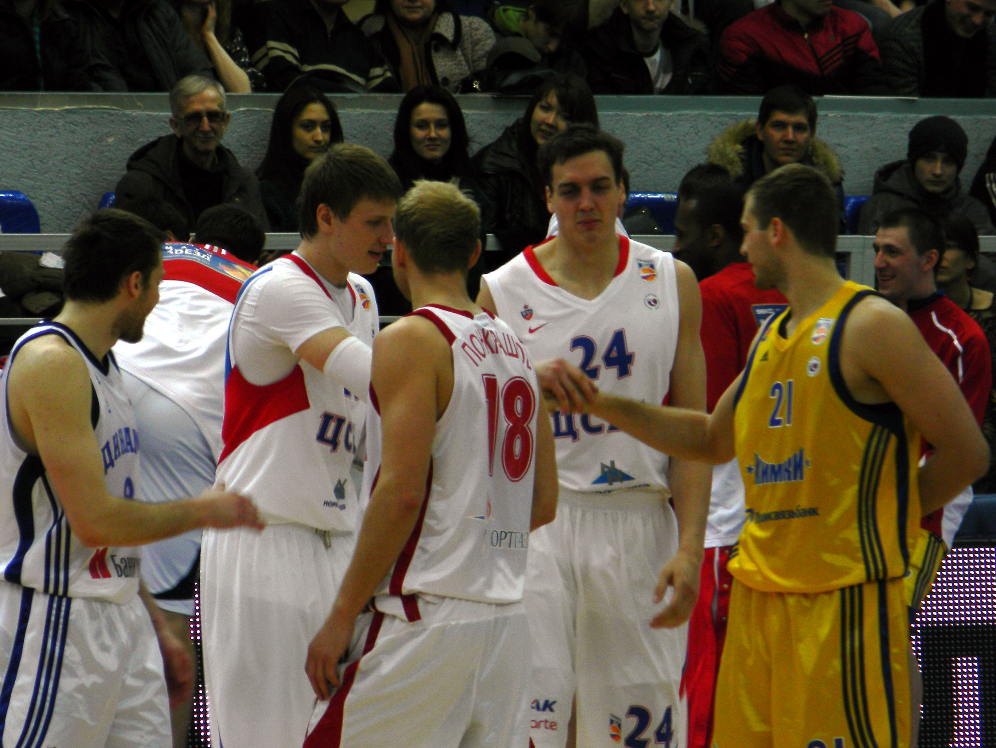 Russian all-star team 2011